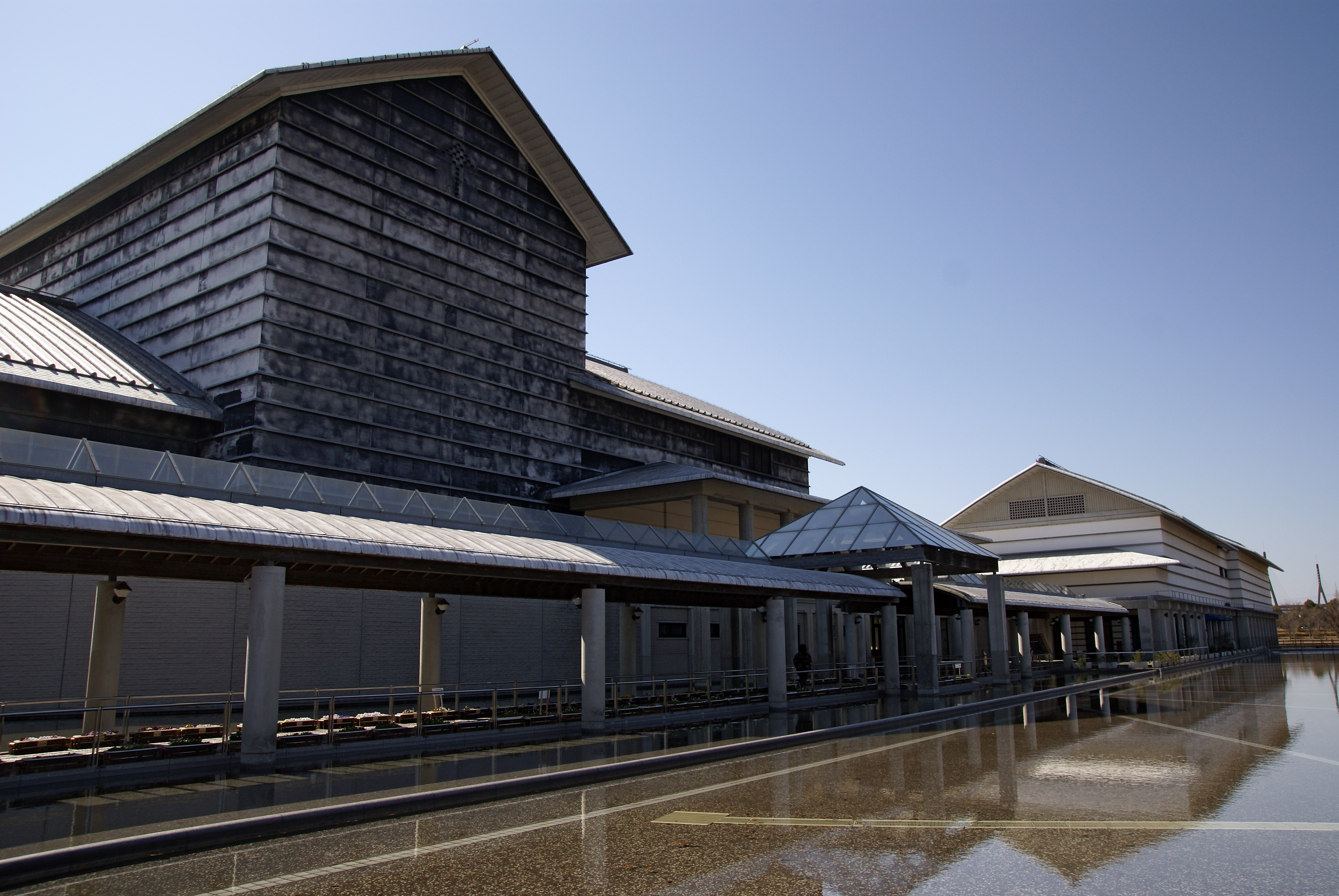 The Museum of Art, Kochi in Kochi, Kochi prefecture, Japan